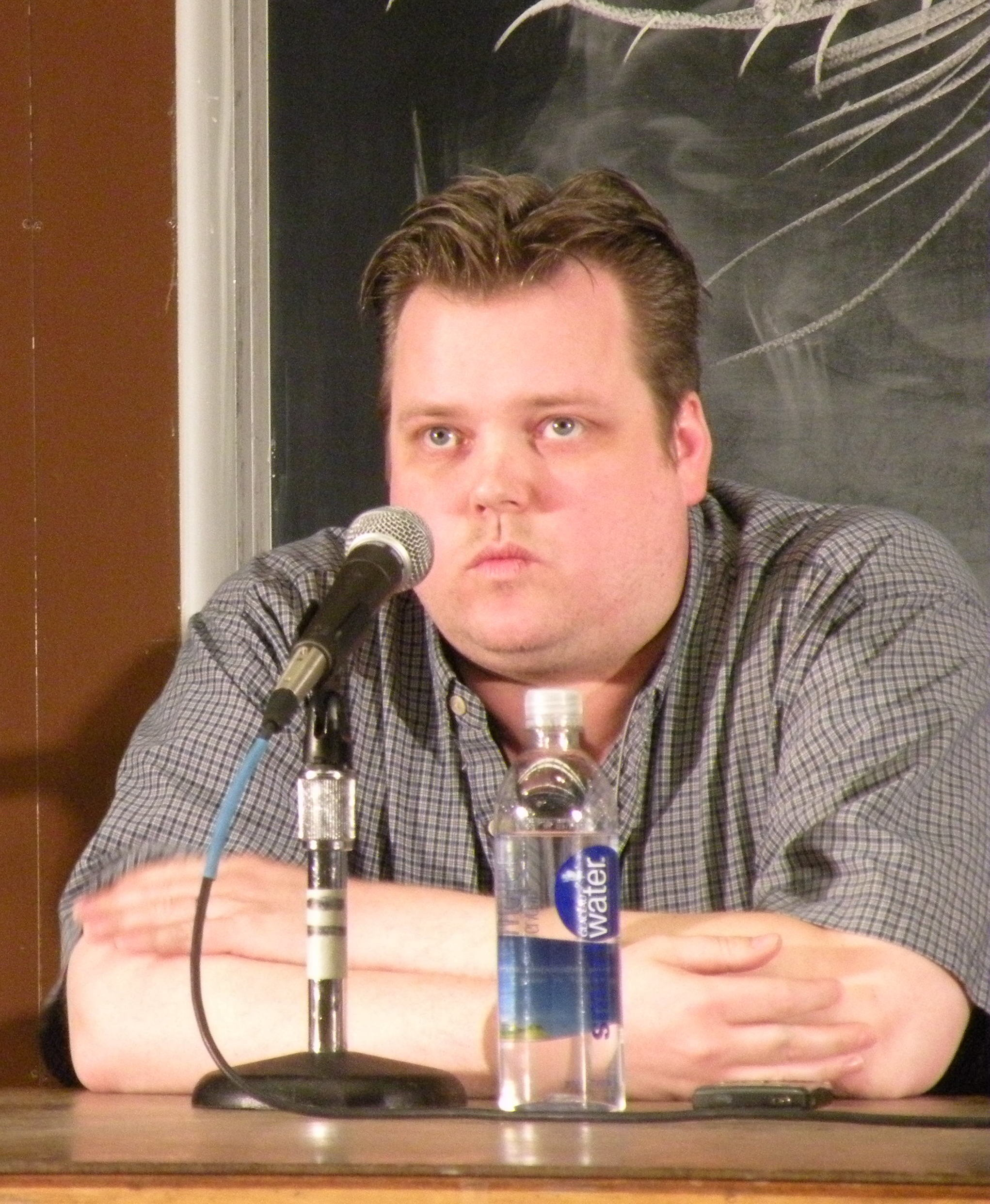 Matt Sloan at ROFLCon 2010